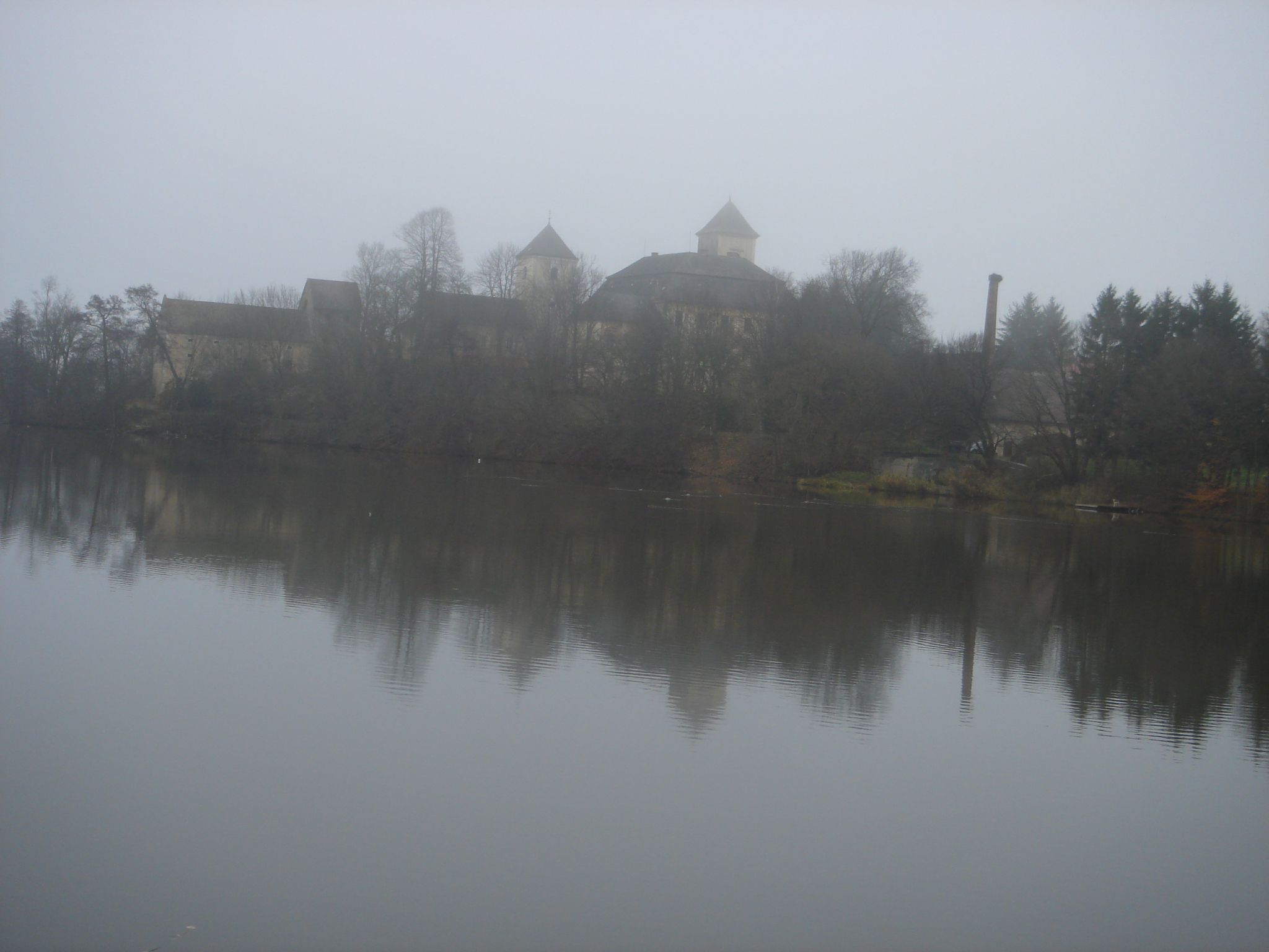 Castle and Church (the smaller building on the left side) from seaside on a misty day in autumn